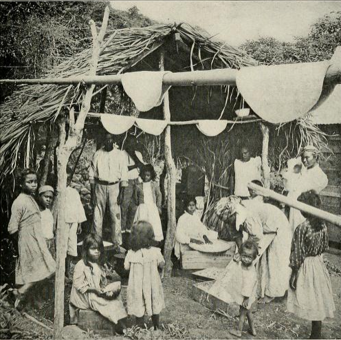 Baking bread in the West Indies